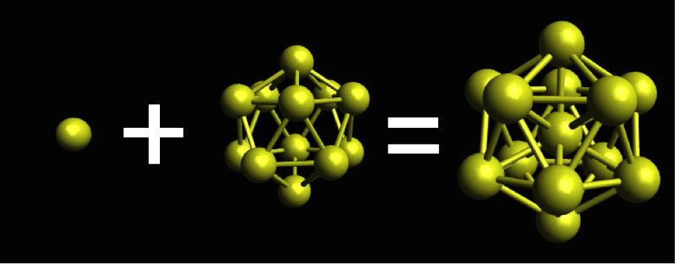 Cluster